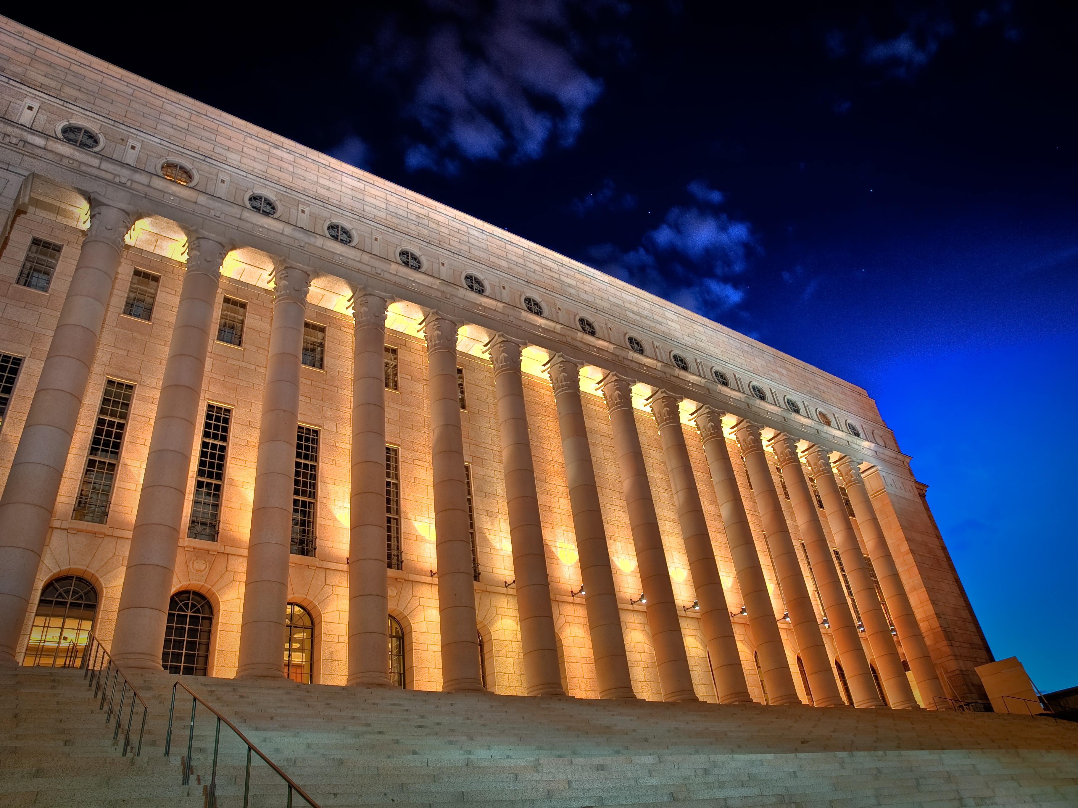 Parliament building in Helsinki, Finland.